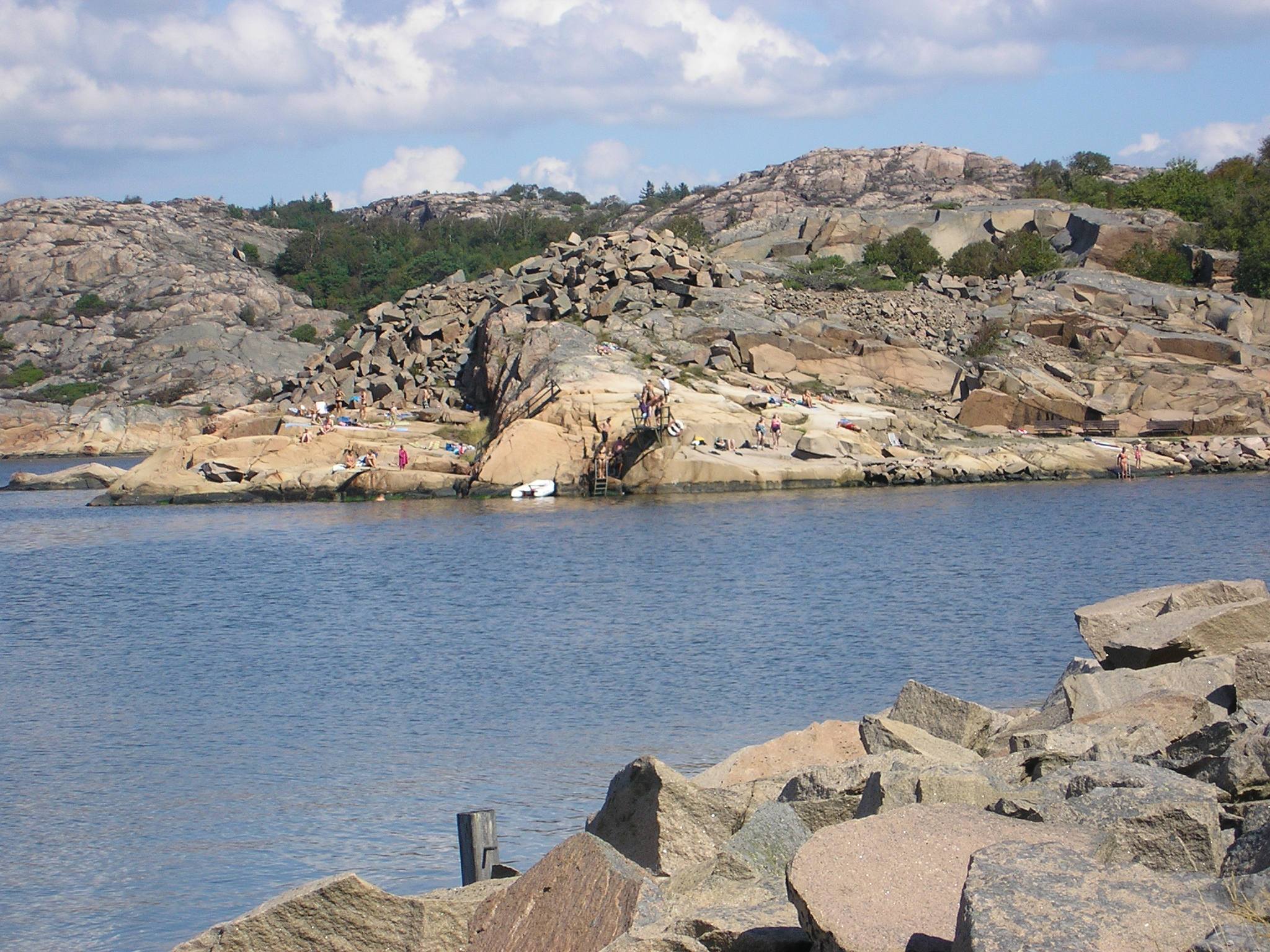 Fågelviken, Lysekil Municipality, Sweden.